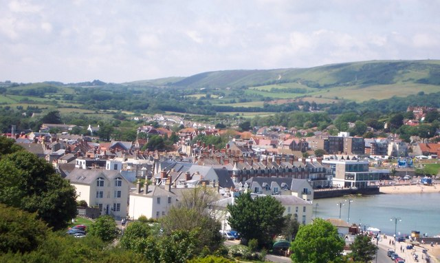 Swanage from the high ground Picture taken from the high ground overlooking Durlston bay.